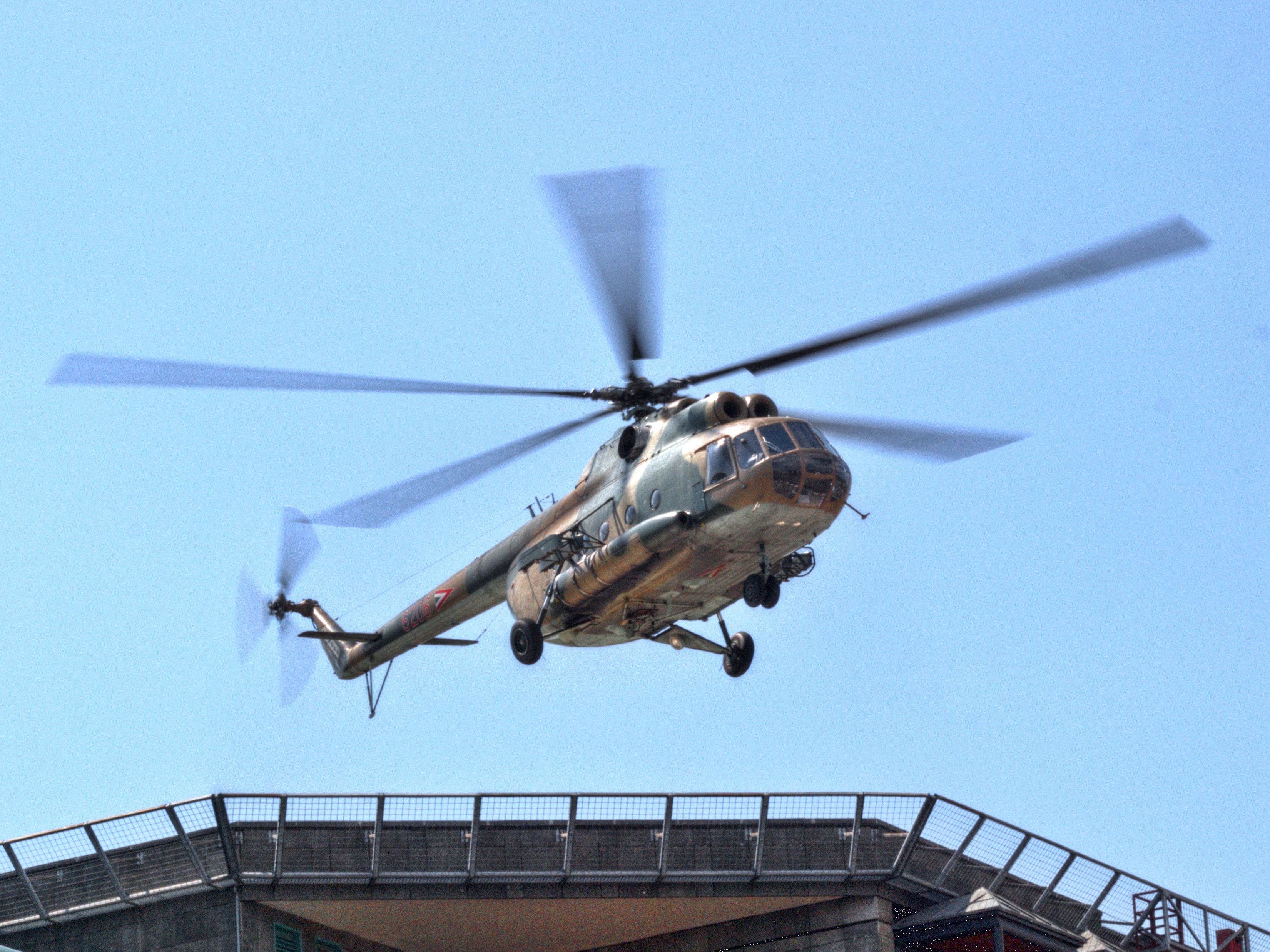 Hungarian Army Mi-8T '6206' during helipad evaluation/certification over Honvédkórház (Army Hospital) at Budapest